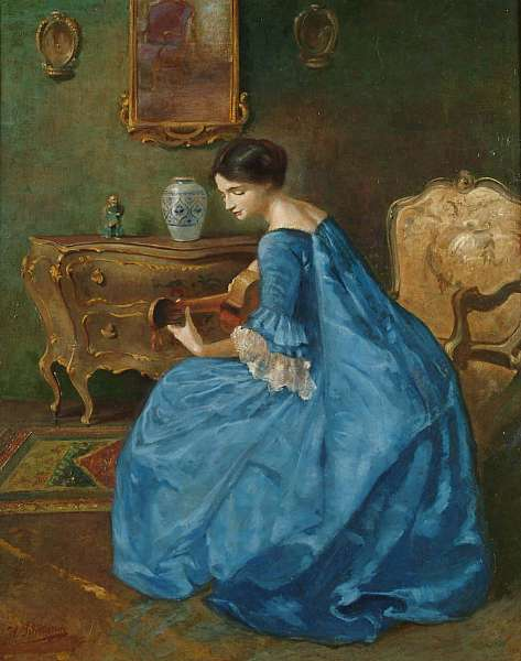 Viktor Schramm – Young woman in blue dress with guitar